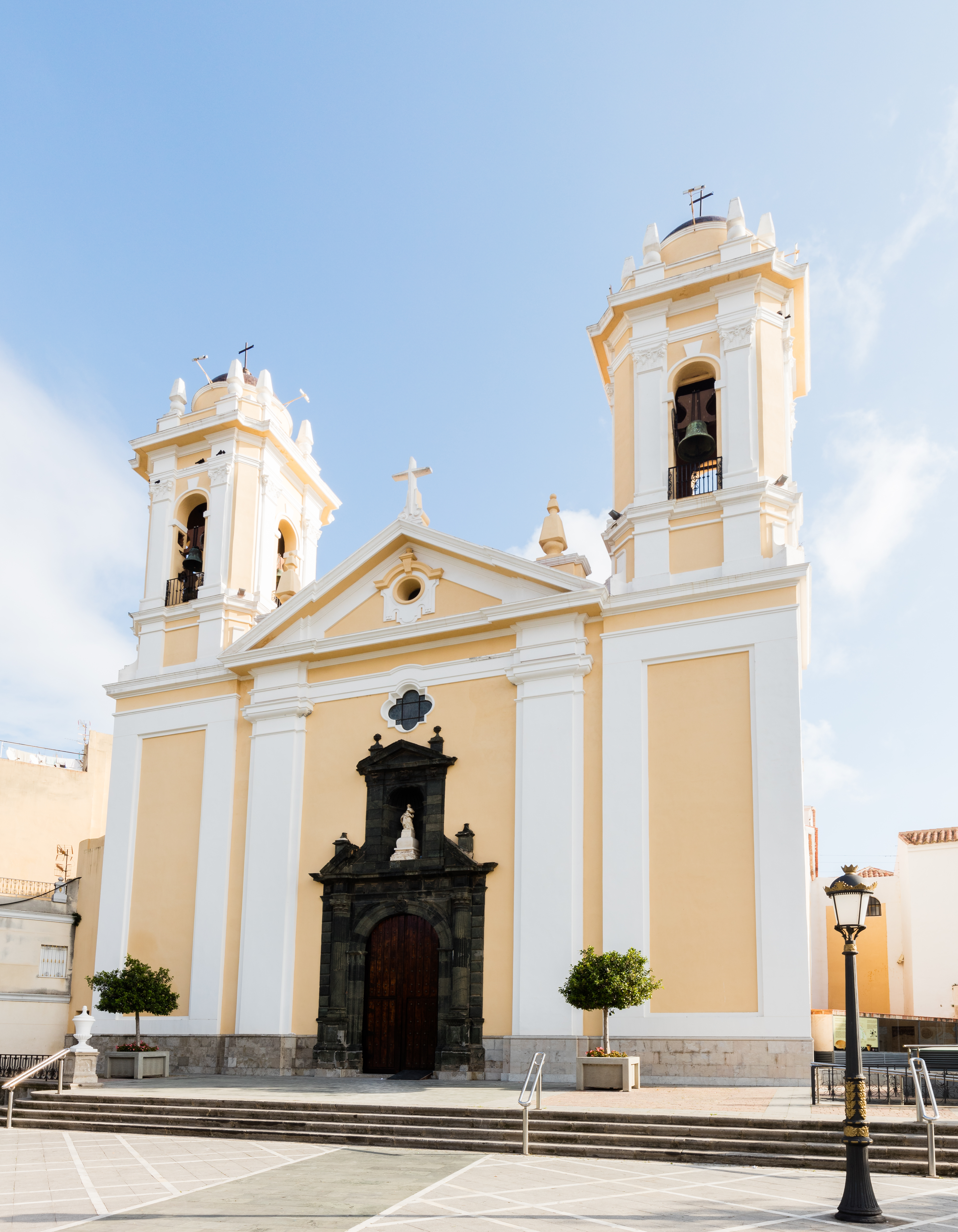 Ceuta Cathedral, Spain